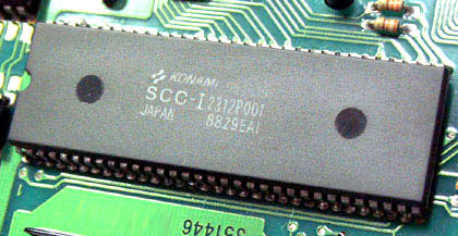 Konami SCC Sound Chip